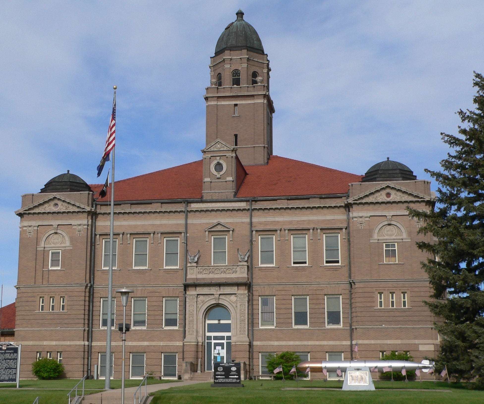 Saunders County Courthouse in Wahoo, Nebraska; seen from the east. The Renaissance Revival building was constructed in 1904. It is listed in the National Register of Historic Places.